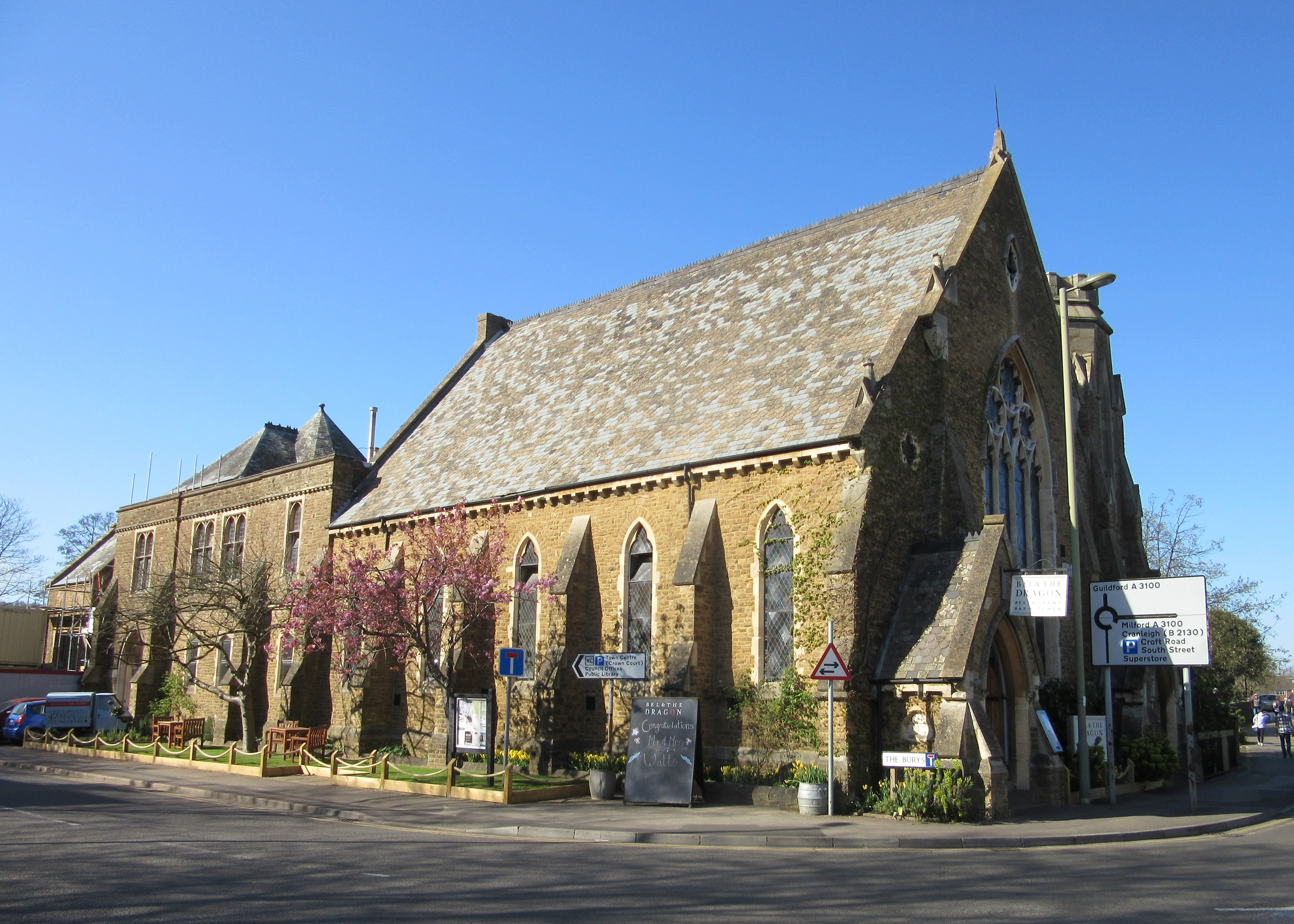 Former Godalming Congregational Church, Bridge Road, Godalming, Borough of Waverley, Surrey, England. Now a restaurant.